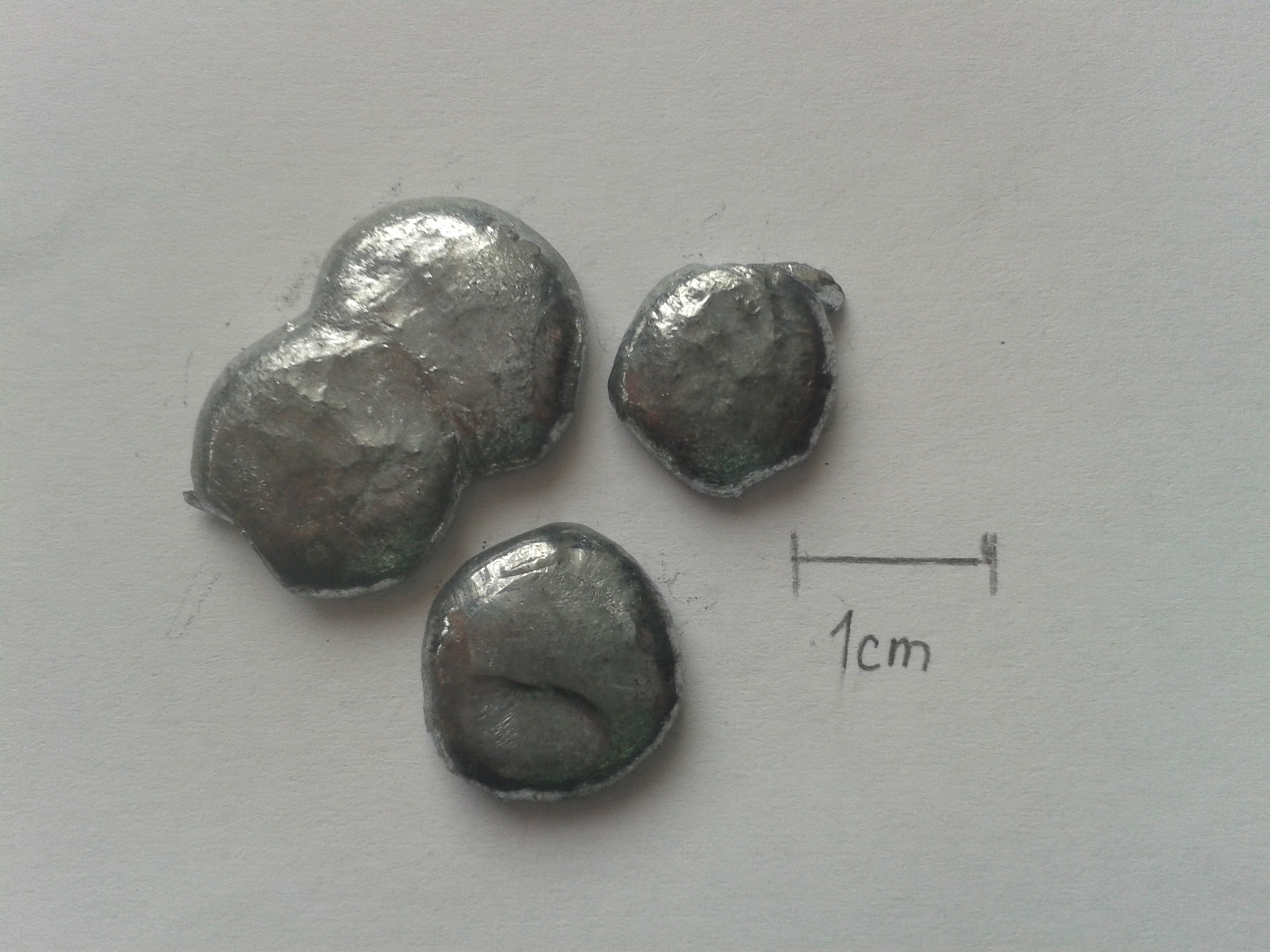 Gallium pellets, with two melted pellets.